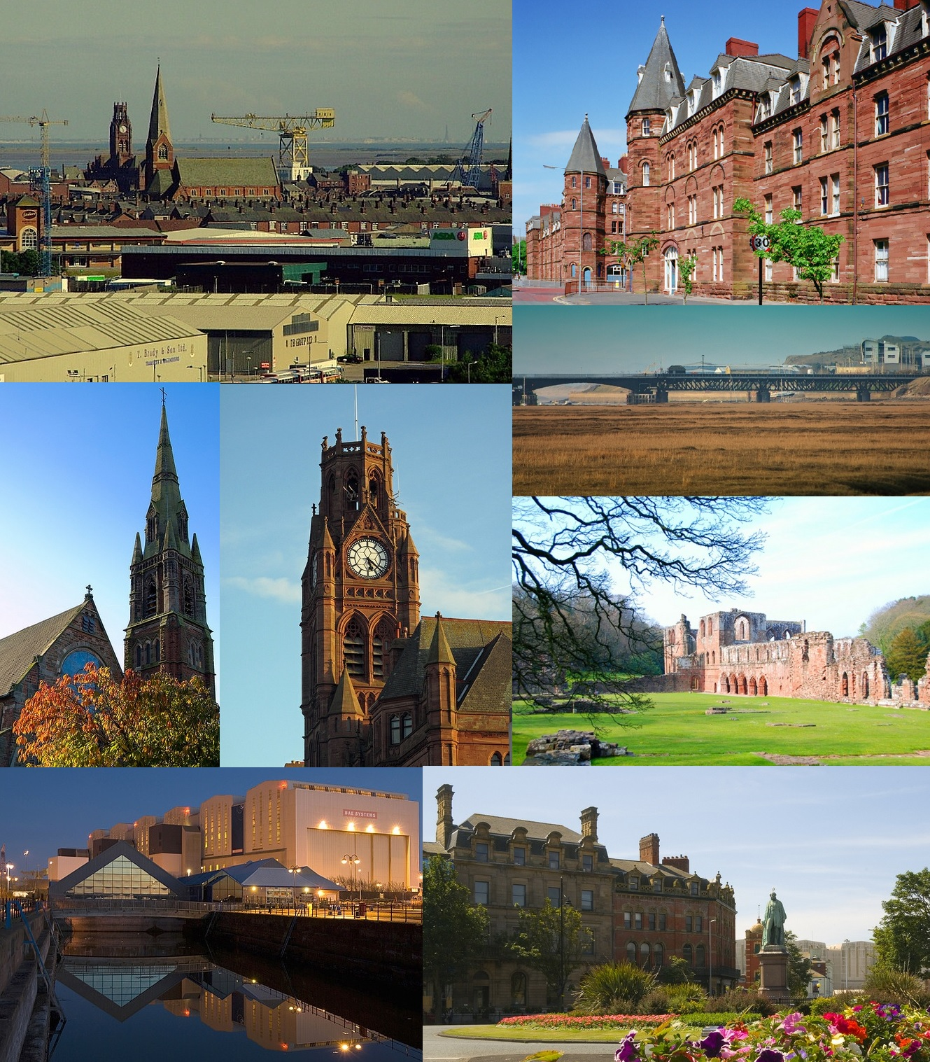 (Top to Bottom, Left to Right) Central Skyline of Barrow, Barrow Island Jubilee Bridge, St. Mary's Church, Barrow Town Hall, Furness Abbey, The Devonshire Dock Hall behind the Dock Museum and Ramsden Square.